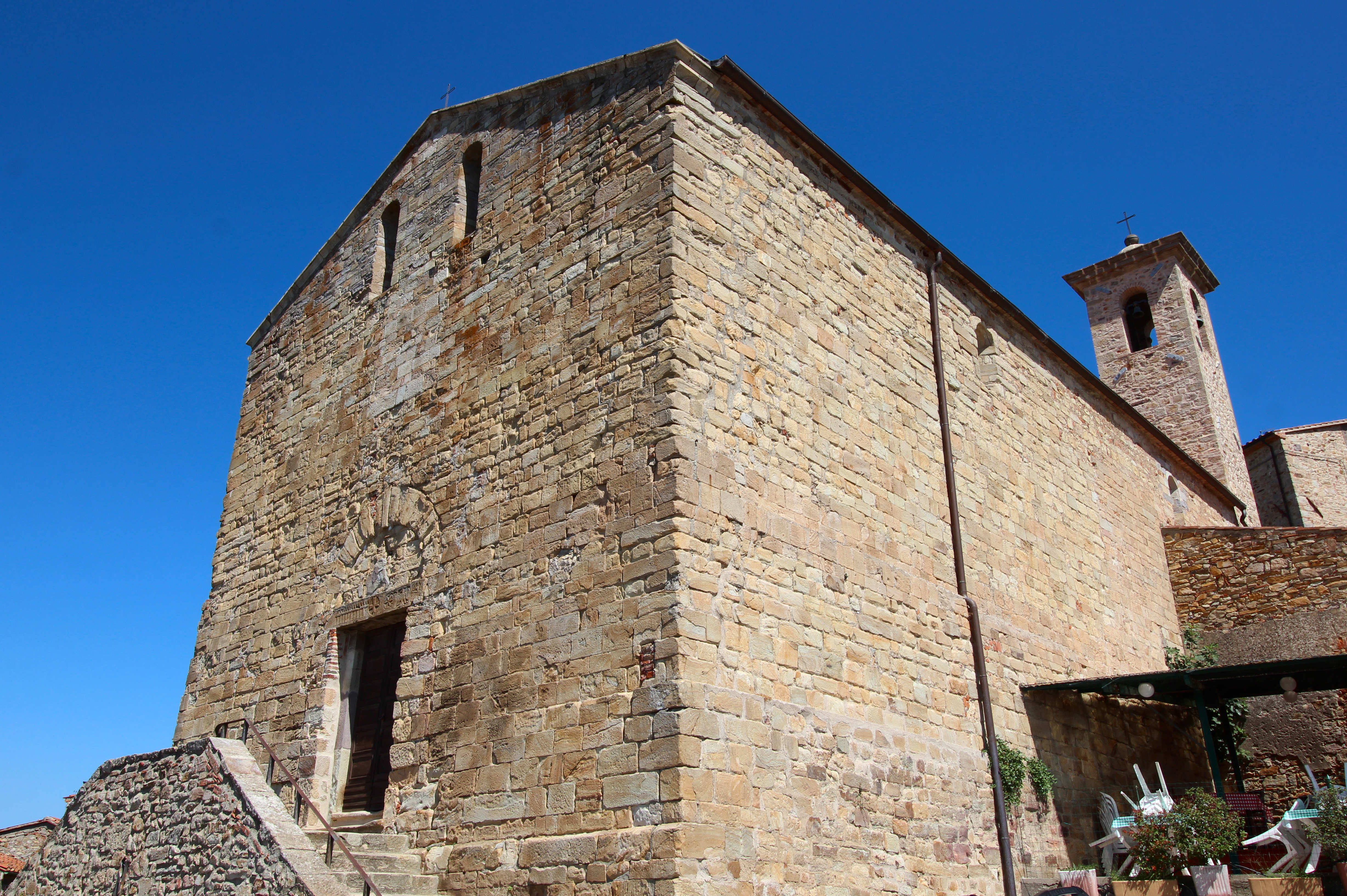 Church Chiesa della Santissima Concezione (Pieve di Santa Mustiola) in Sticciano, hamlet of Roccastrada, Maremma / Colline Metallifere, Province of Grosseto, Tuscany, Italy